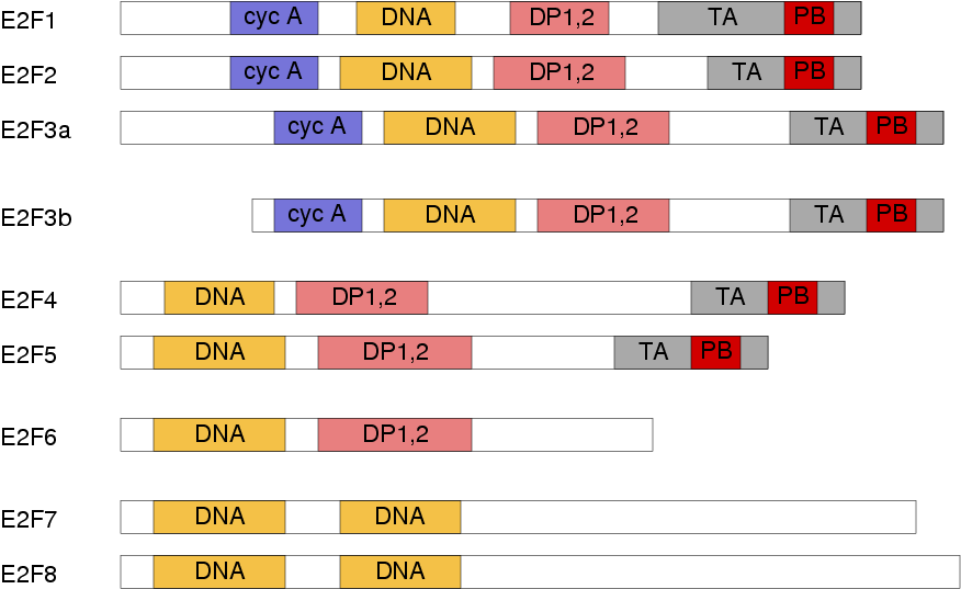 Schematic diagram of the amino acid sequences of E2F family members (N-terminus to the right, C-terminus to the left) highlighting the relative locations of functional domains within each member. Legend: cyc A - Cyclin A binding domain DNA - DNA-binding domain DP1,2 - domain for dimerization with DP1, 2 TA - transcriptional activation domain PB - pocket protein binding domain Image made in Xfig under Cygwin.